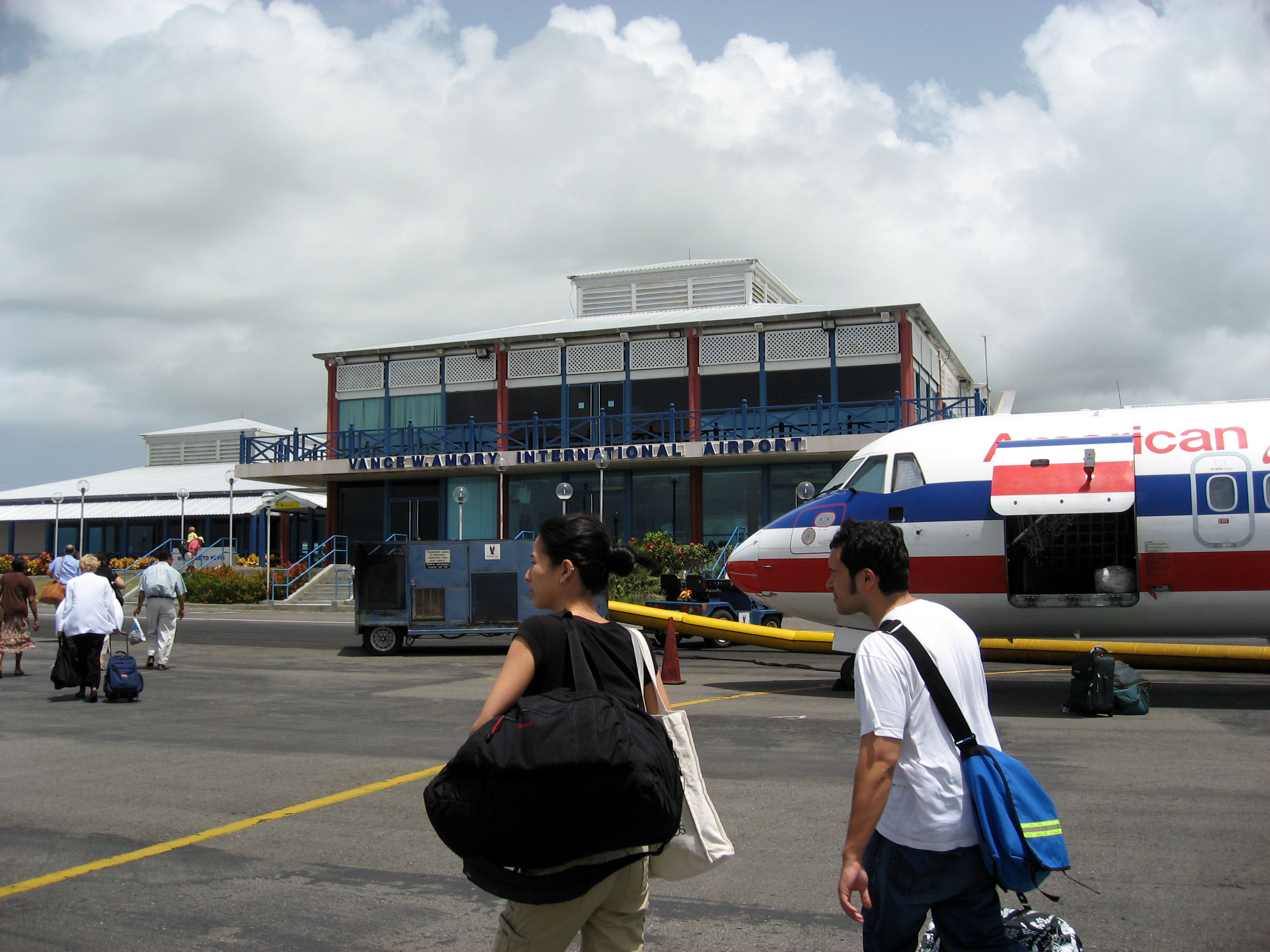 Facade of Vance W. Amory Airport on the island of Nevis.